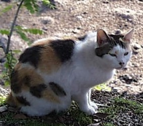 A Japanese Bobtail, photographed May 1 2003 on the island of Miyajima Japan. Photograph by Toby Woodwark.